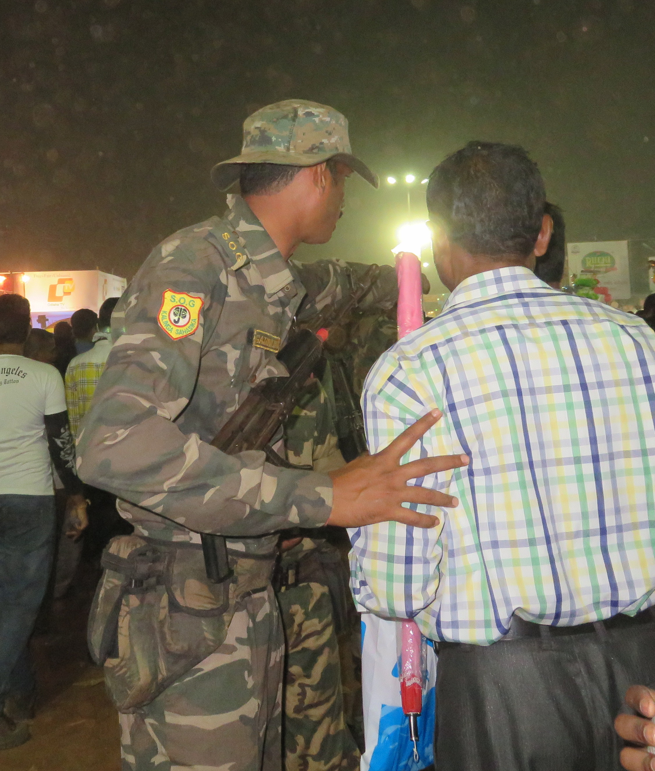 Special Operation Group, is a special paramilitary unit in the state of Odisha which specializes in anti-insurgency operations. In the image one SOG personnel guiding a person in Baljatra 2015.